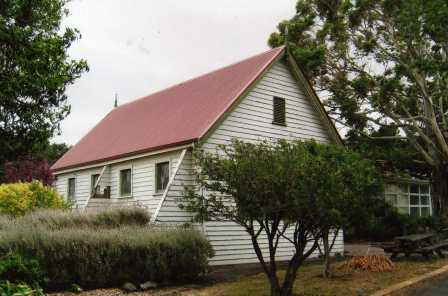 Picture of the Wangoom State School in winter 2007, before being coverted into a Laser Strike venue.